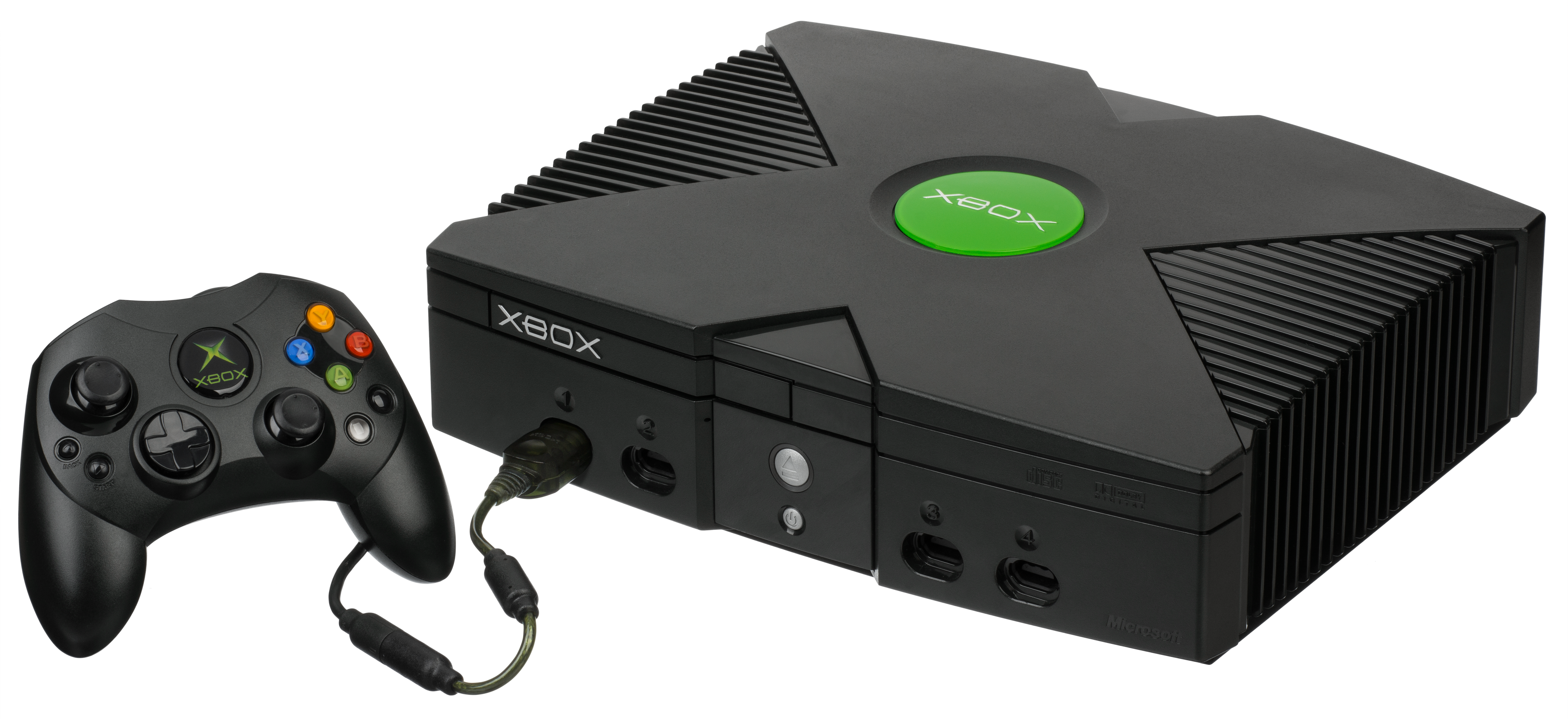 The Xbox, a sixth-generation gaming console made by Microsoft that was first released in 2001. The Xbox was Microsoft's first foray into the gaming console market, and was followed by the Xbox 360 in 2005. The console is shown here with the S controller, which replaced the console's original control as the standard pack-in controller. The console is notable for having a built-in hard drive, breakaway controller dongles and an Ethernet port to support Microsoft's online gaming service, Xbox Live.